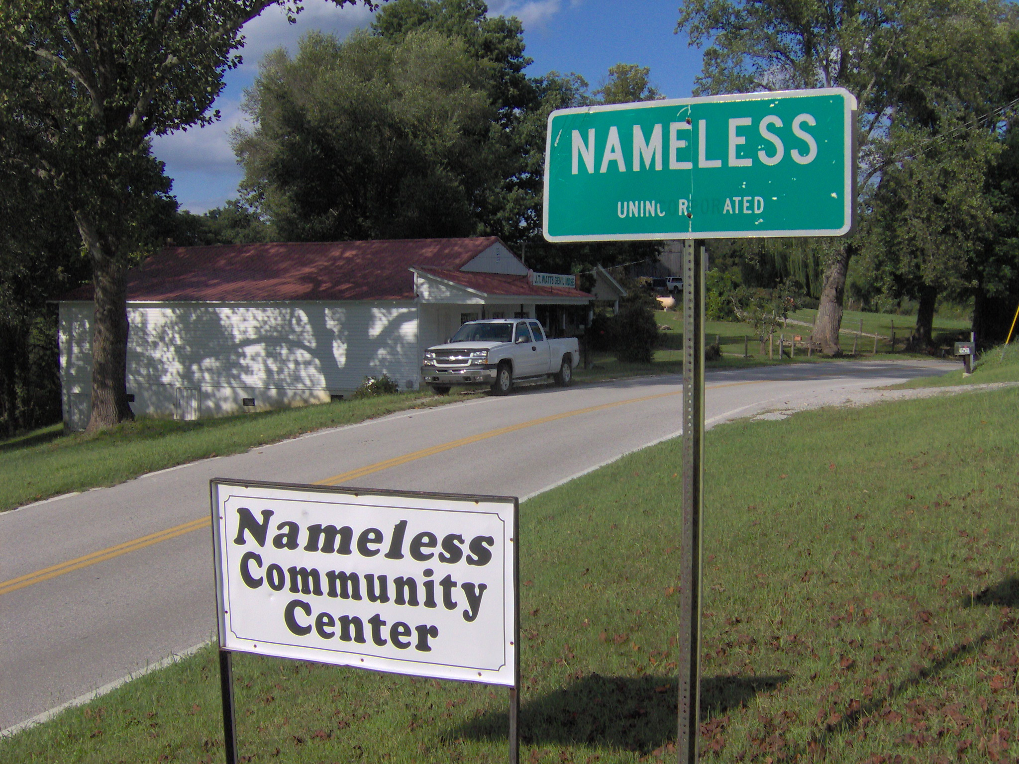 The community of Nameless, Tennessee, USA, along State Highway 290 in Jackson County.